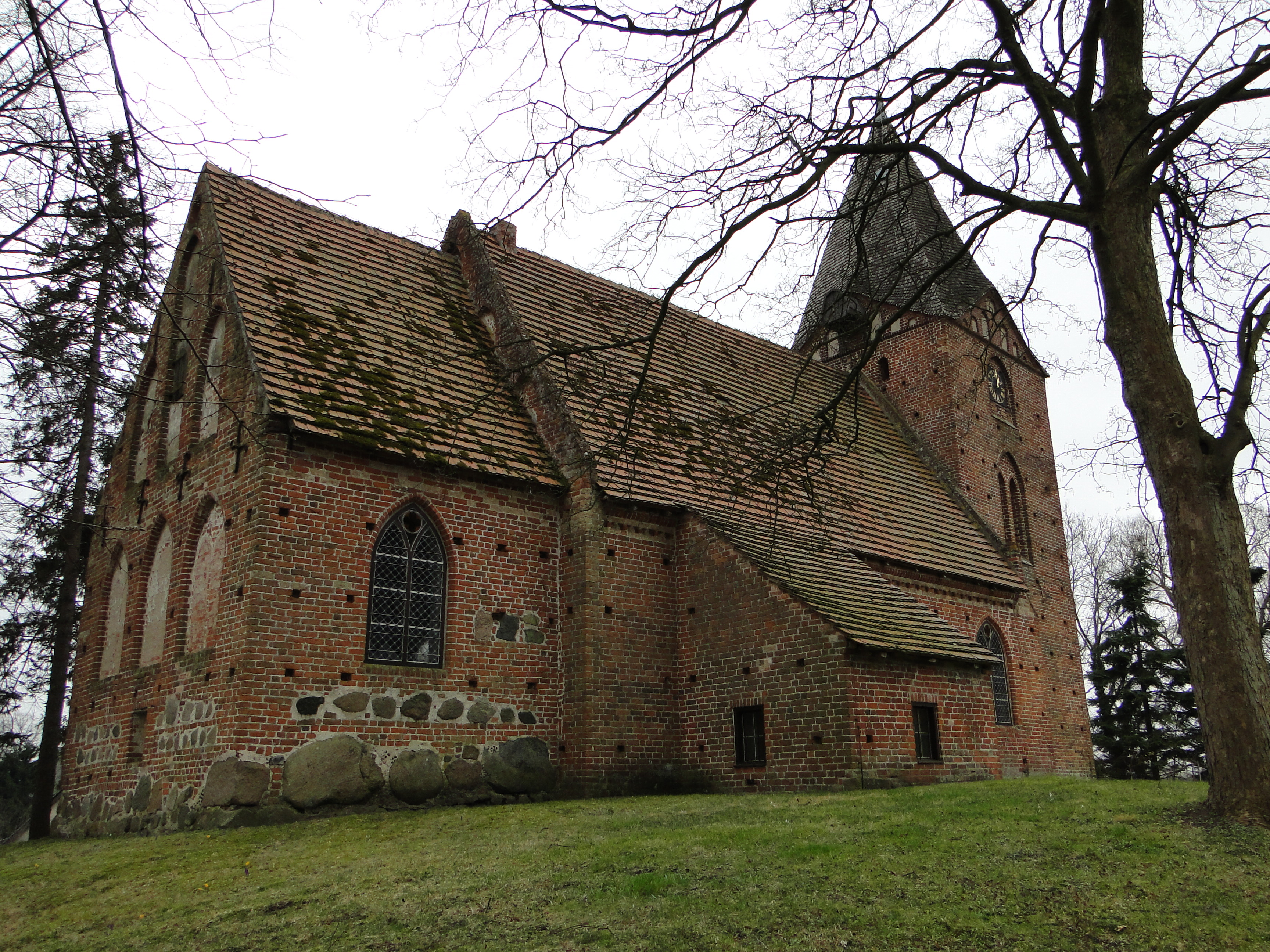 Church in Roggenstorf, district Nordwestmecklenburg, Mecklenburg-Vorpommern, Germany